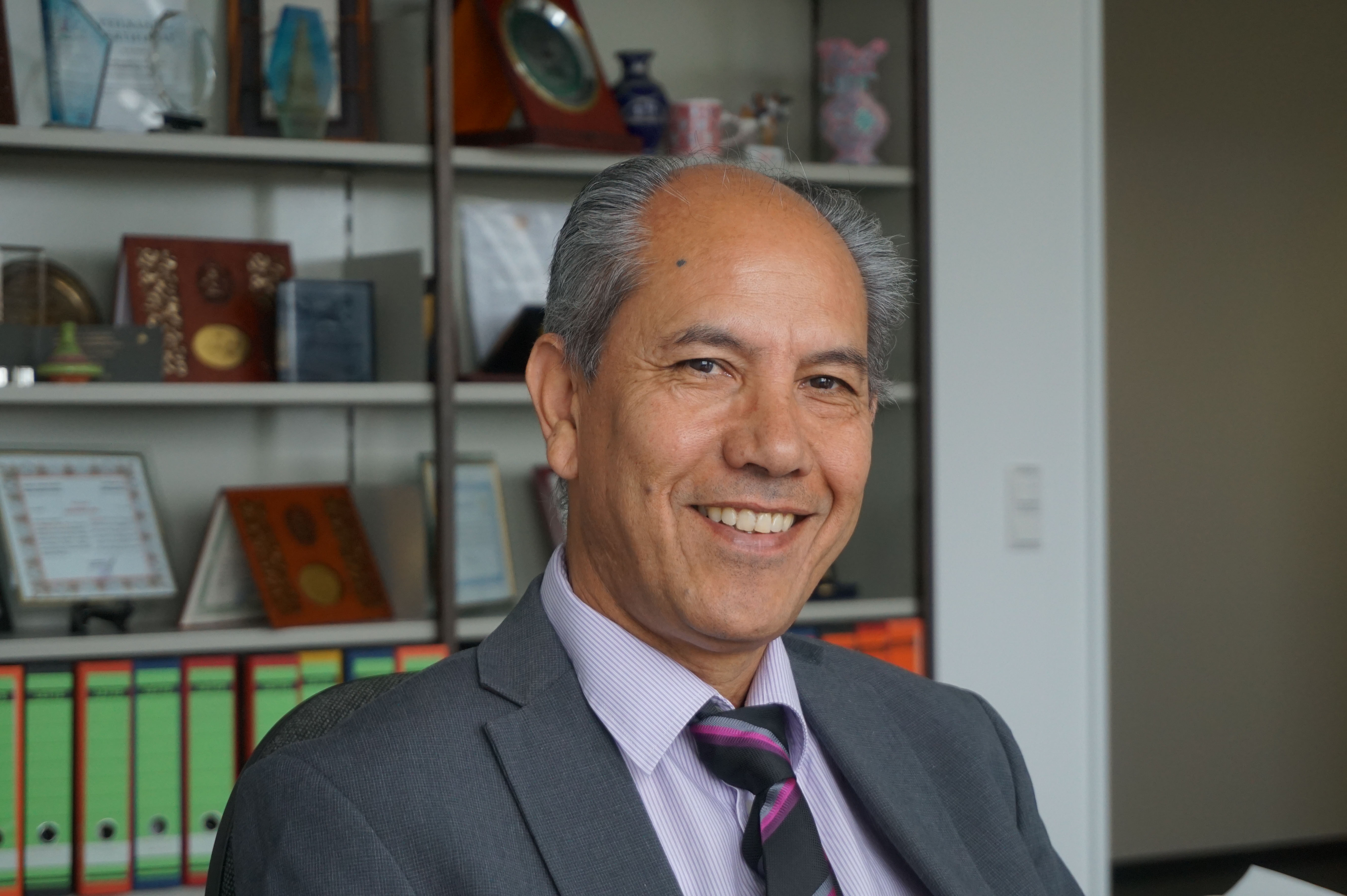 Portrait of Nazir Peroz